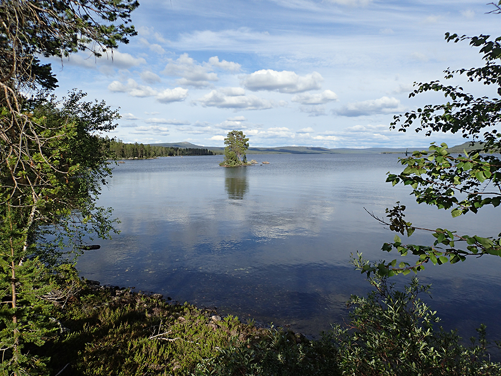 Lake Vuolvojávrre/Vuolvojaure viewed from the northwest.